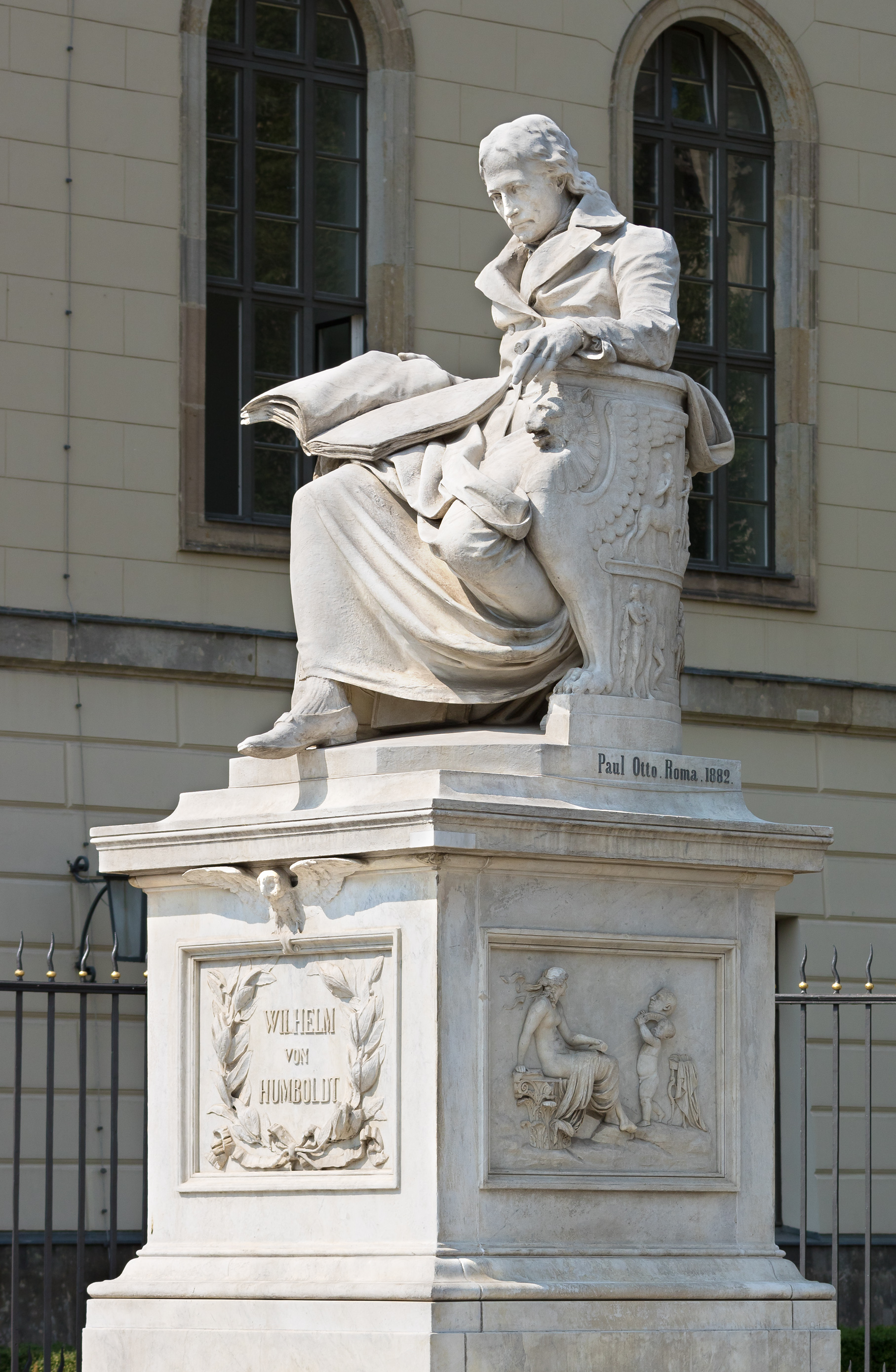 Wilhelm von Humboldt statue. In the background the main building of the Humboldt-University of Berlin.